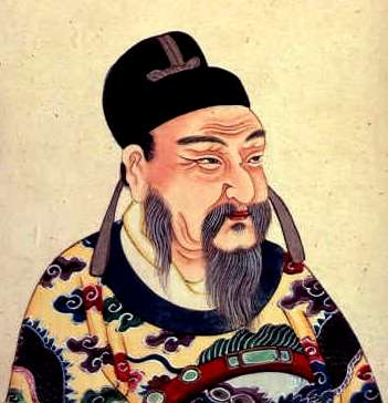 Emperor Gaozu of Tang